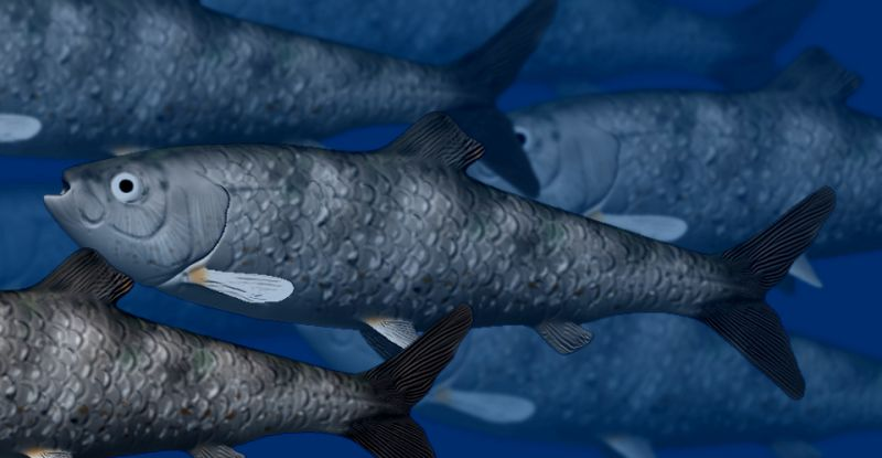 Knightia sp., Early Eocene of Wyoming. Digital.